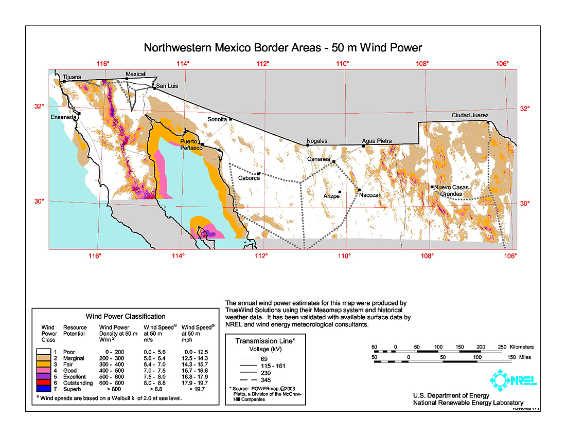 50 meter average wind speed map for northwestern Mexico border region